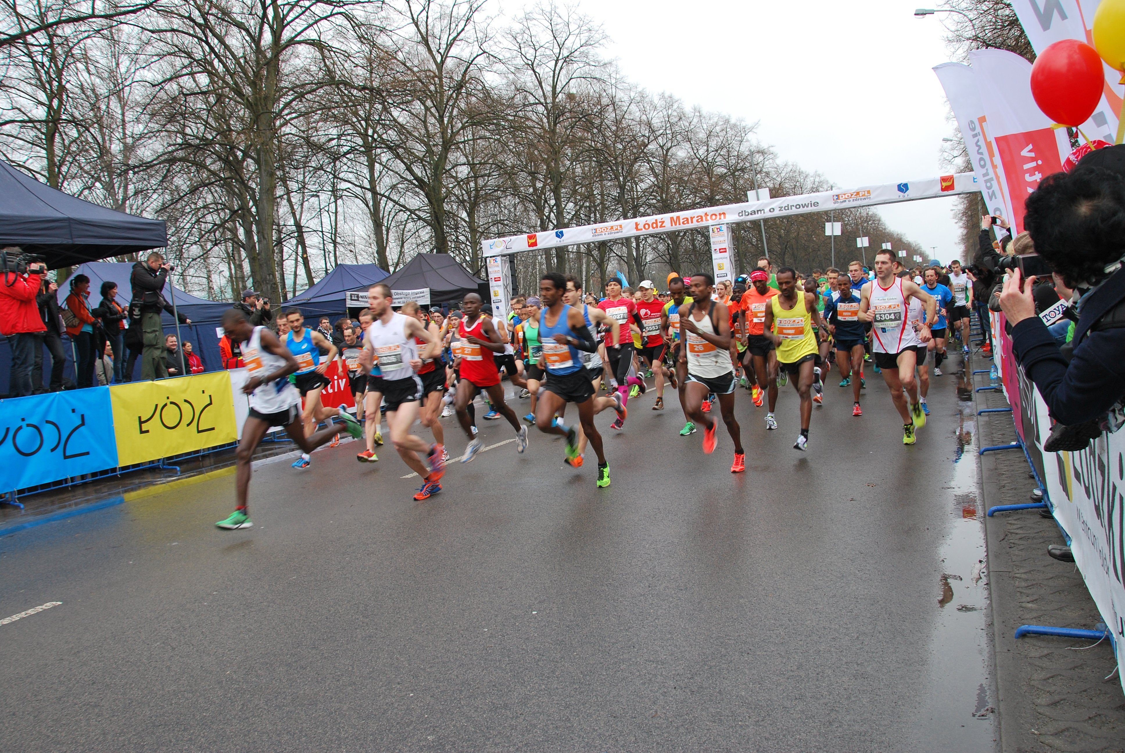 Łódź Dbam o Zdrowie Marathon 2013